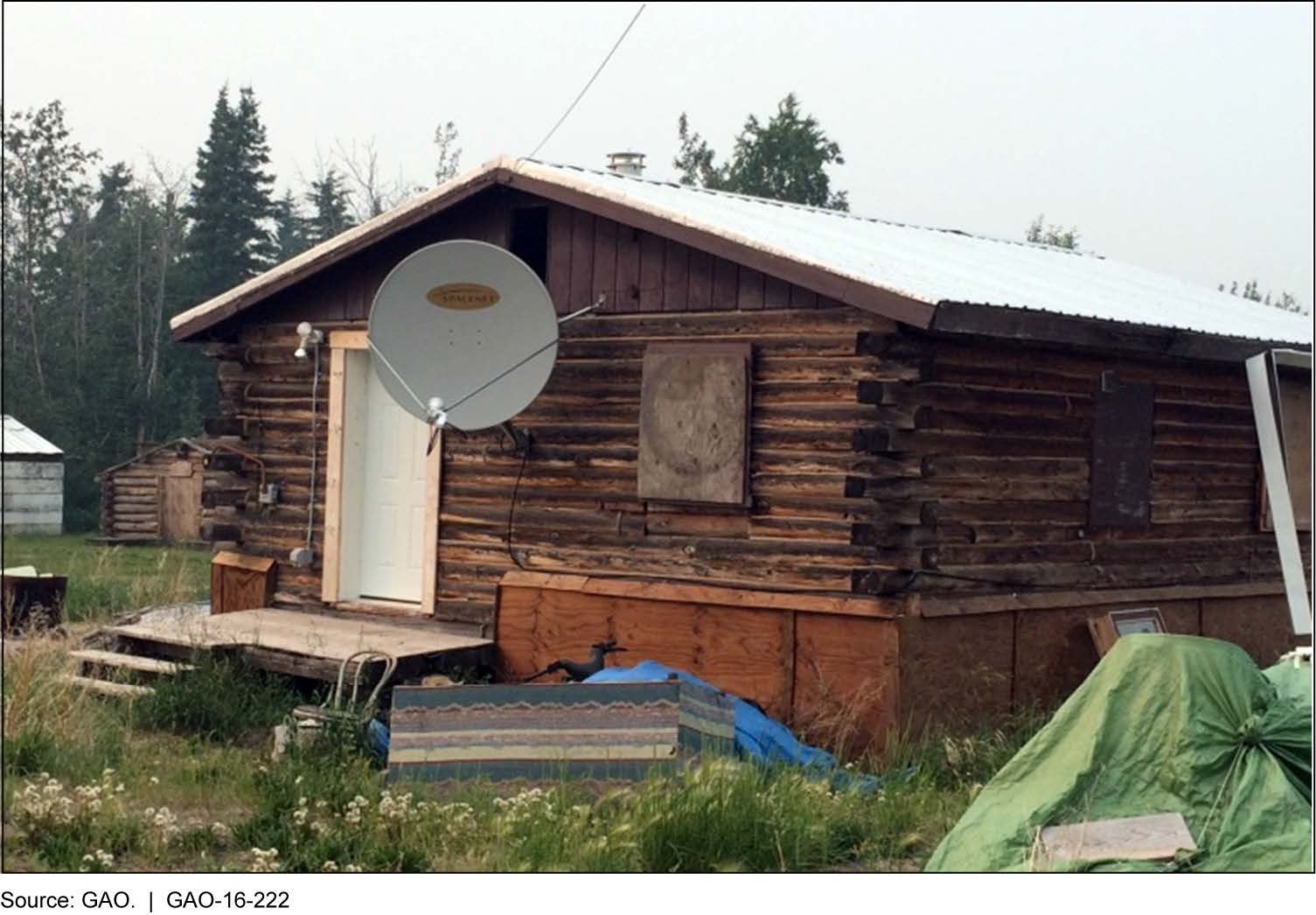 This image is excerpted from a U.S. GAO report: TELECOMMUNICATIONS: Additional Coordination and Performance Measurement Needed for High-Speed Internet Access Programs on Tribal Lands